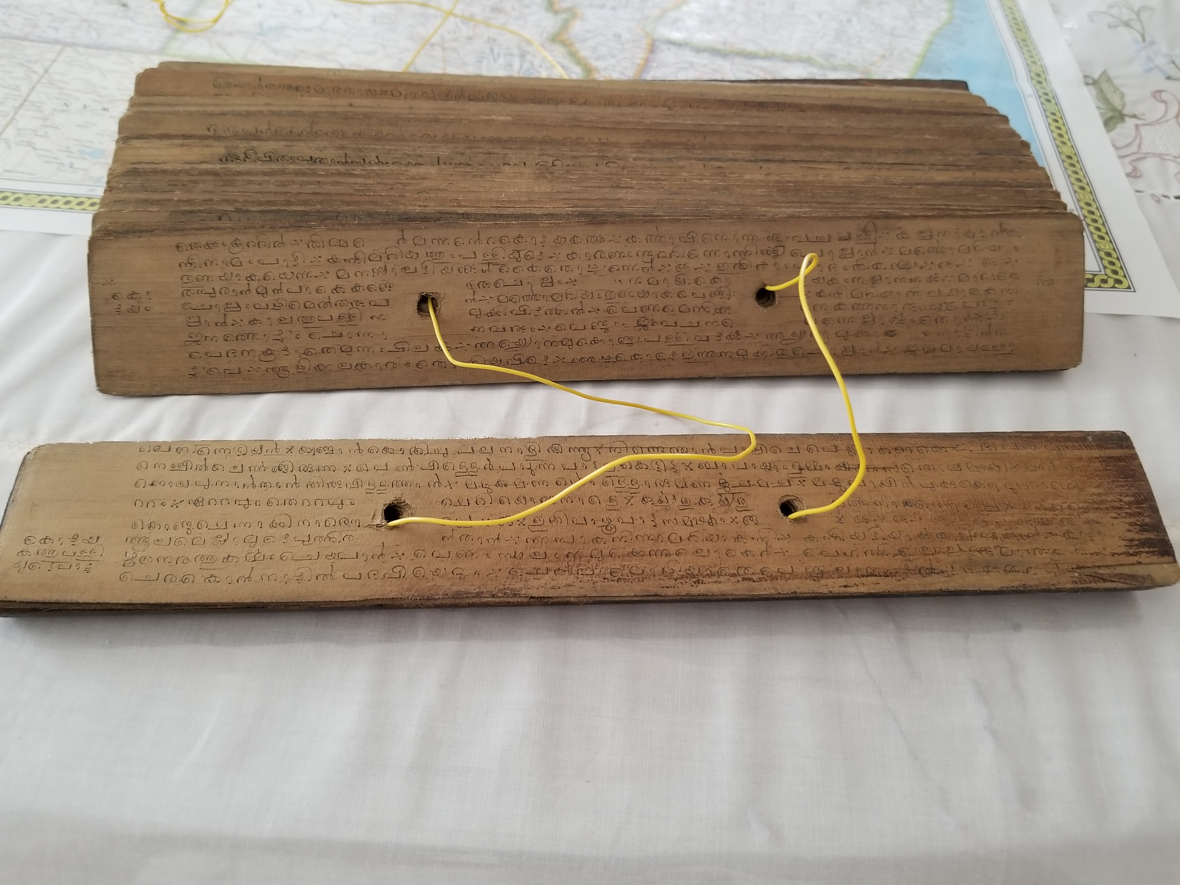 Palm leaf relics upon which Knanaya folk songs were originally written down. These specific palm leaves are from the Knanaya family Puthimadathil.